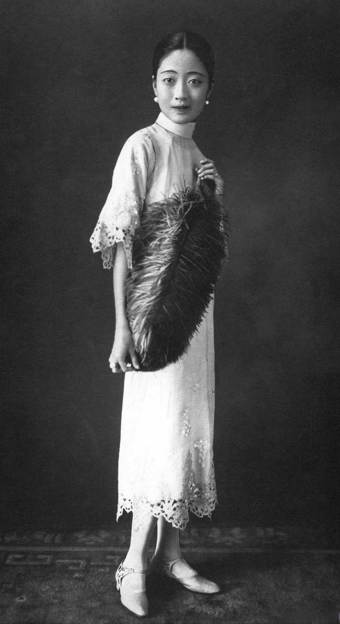 Photograph of Gobele, Empress Consort of Qing Dynasty China